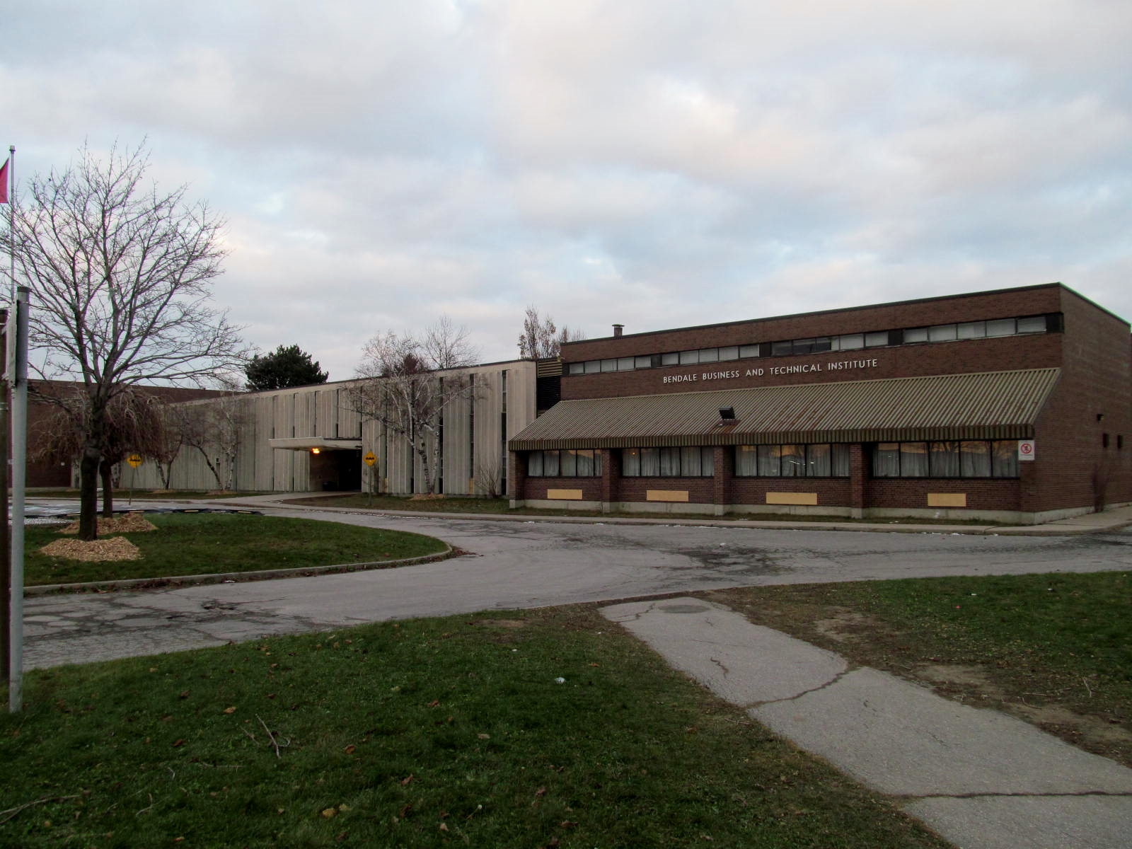 Bendale Business and Technical Institute, built in 1962, viewed from the front. To be demolished in 2016.